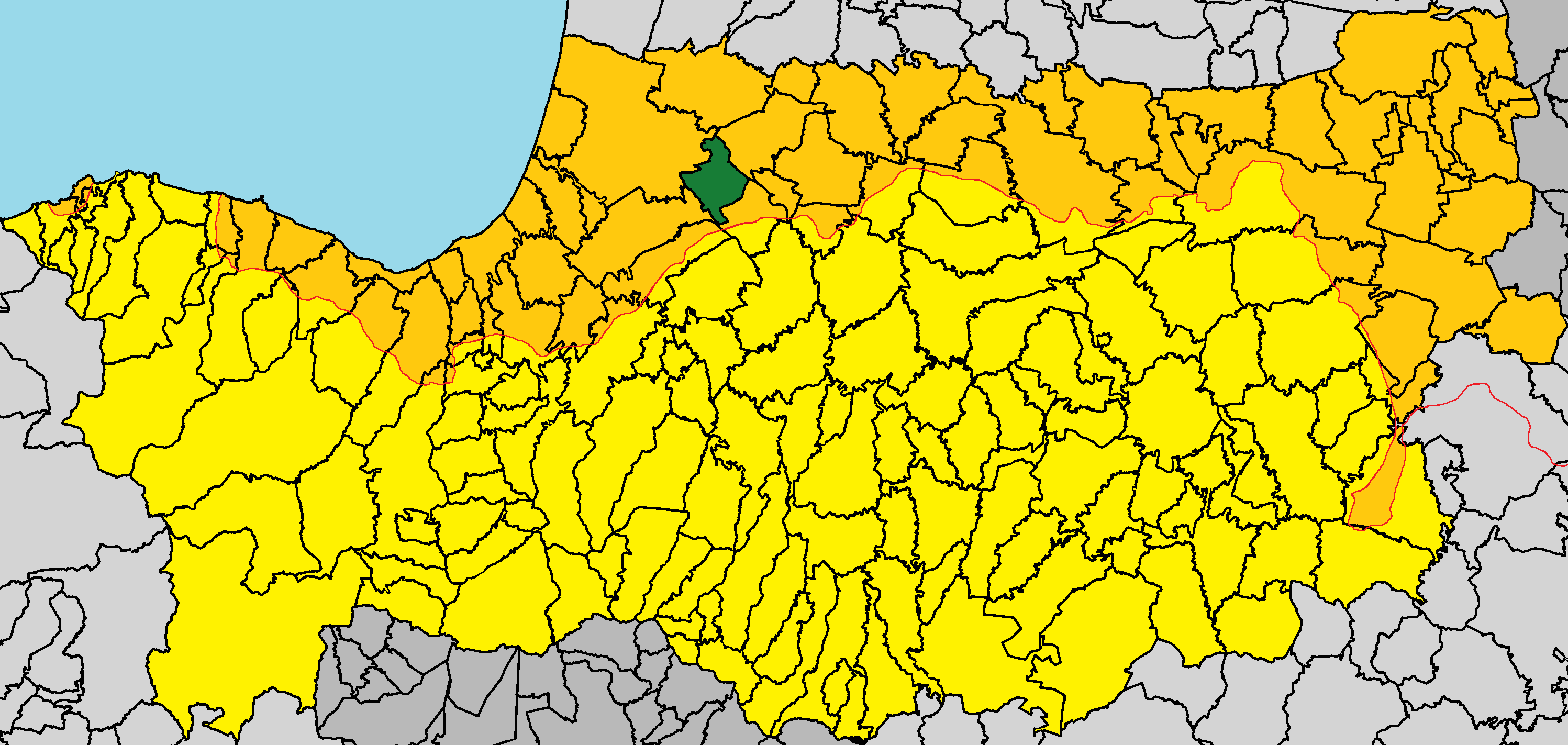 Argaki in Nicosia District (de jure).